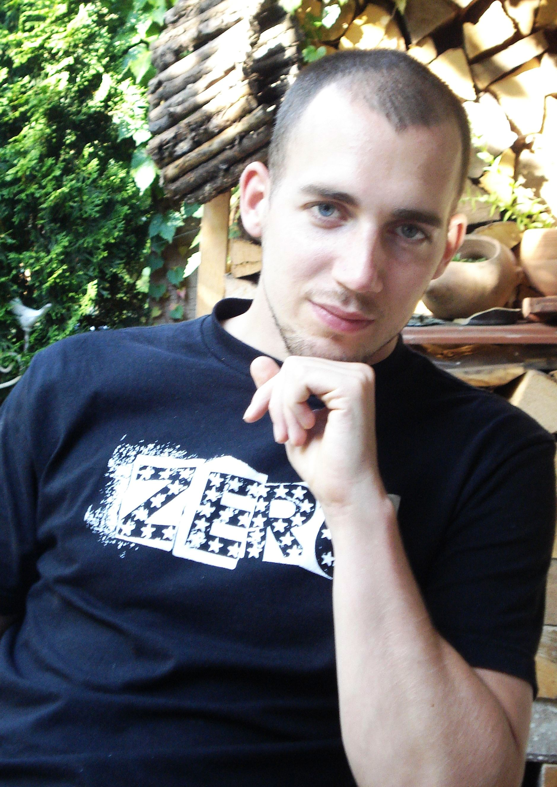 Picture of Philipp Hager